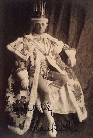 Photograph of the stage and film actor Ivan Berlyn (born as Isaac Berlin) (1867-1934) in 1915